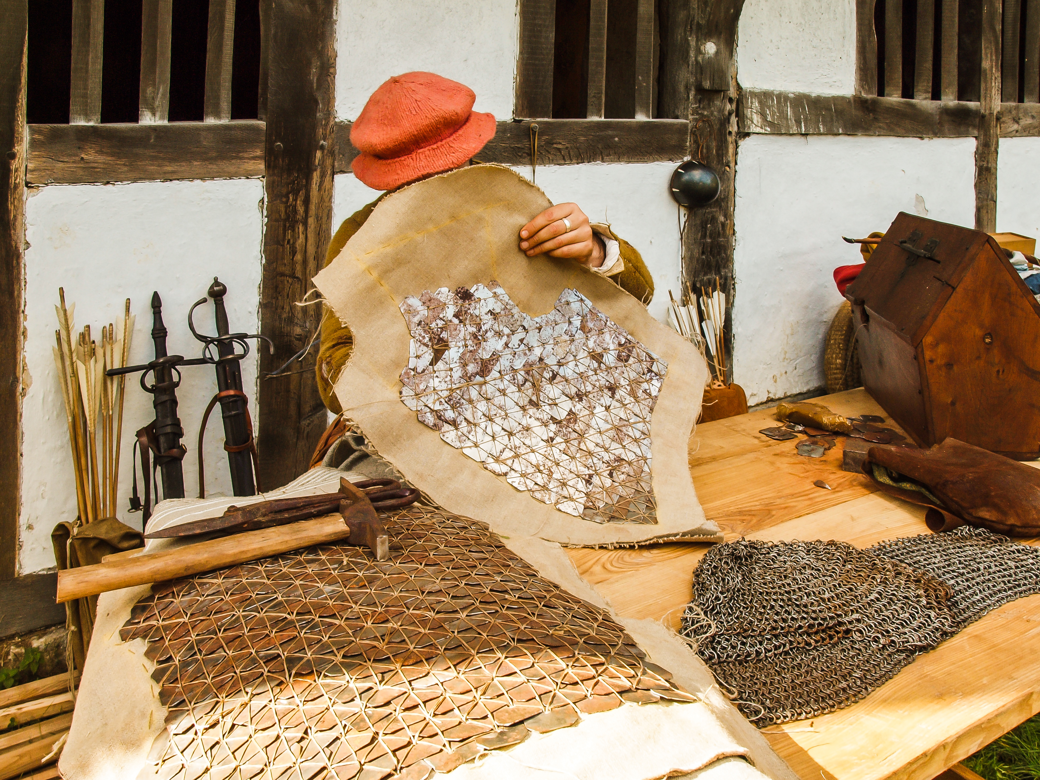 Un membre du Groupe Tudor fait une 'Jack of Plates' (gilet pare-balles)